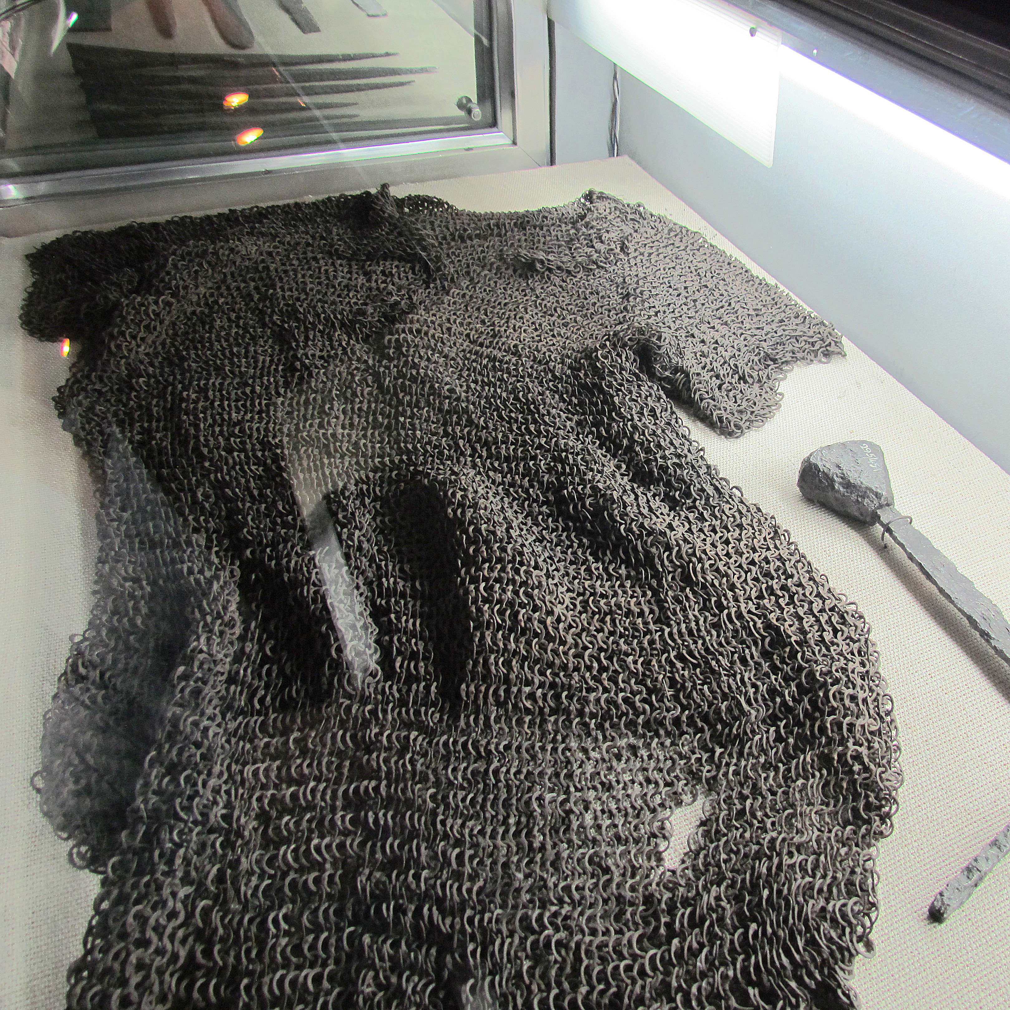 Serbian midleaged chain mail, Military Museum, Belgrade